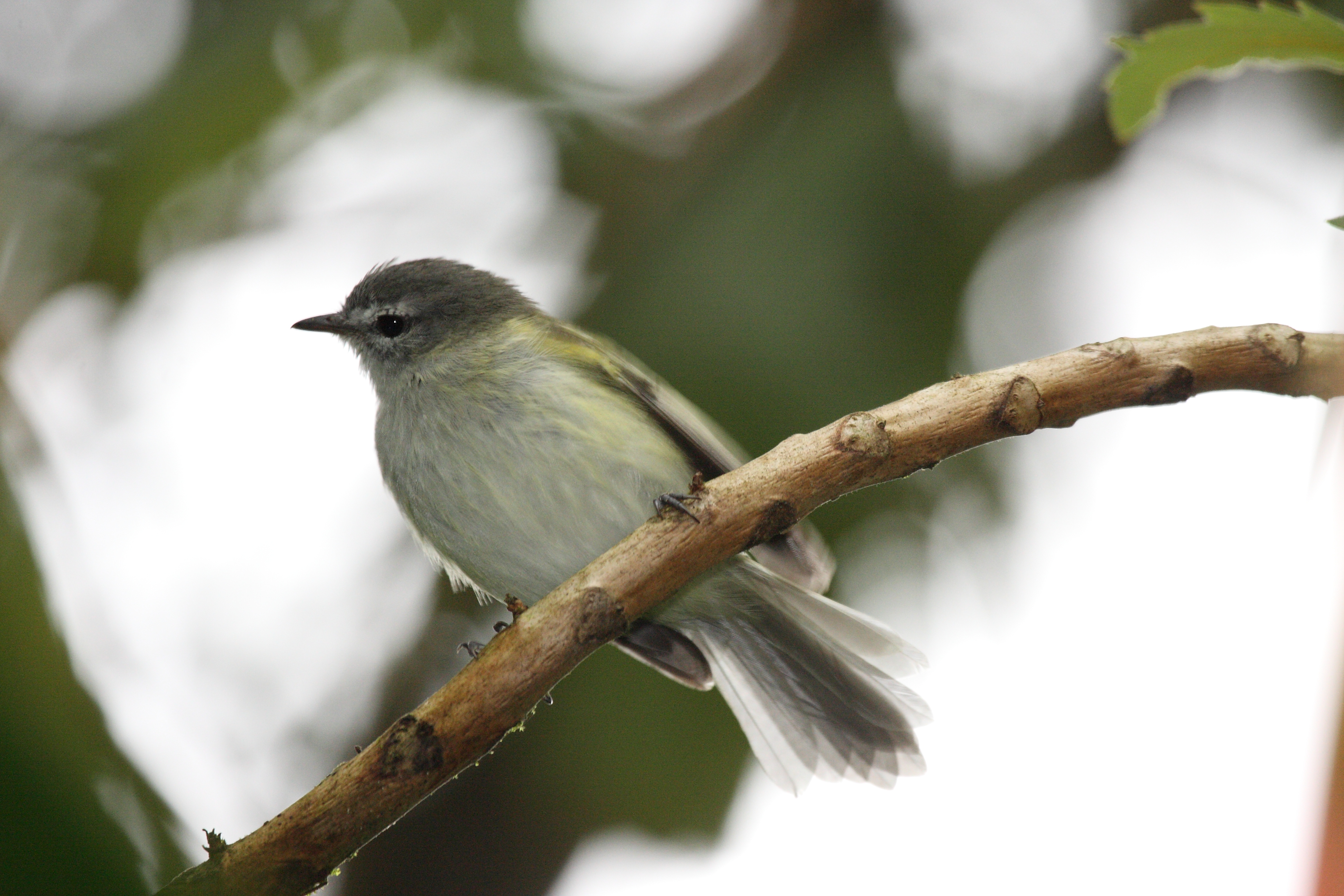 Sclater's Tyrannulet, Photographed at Aguas Calientes, Peru.